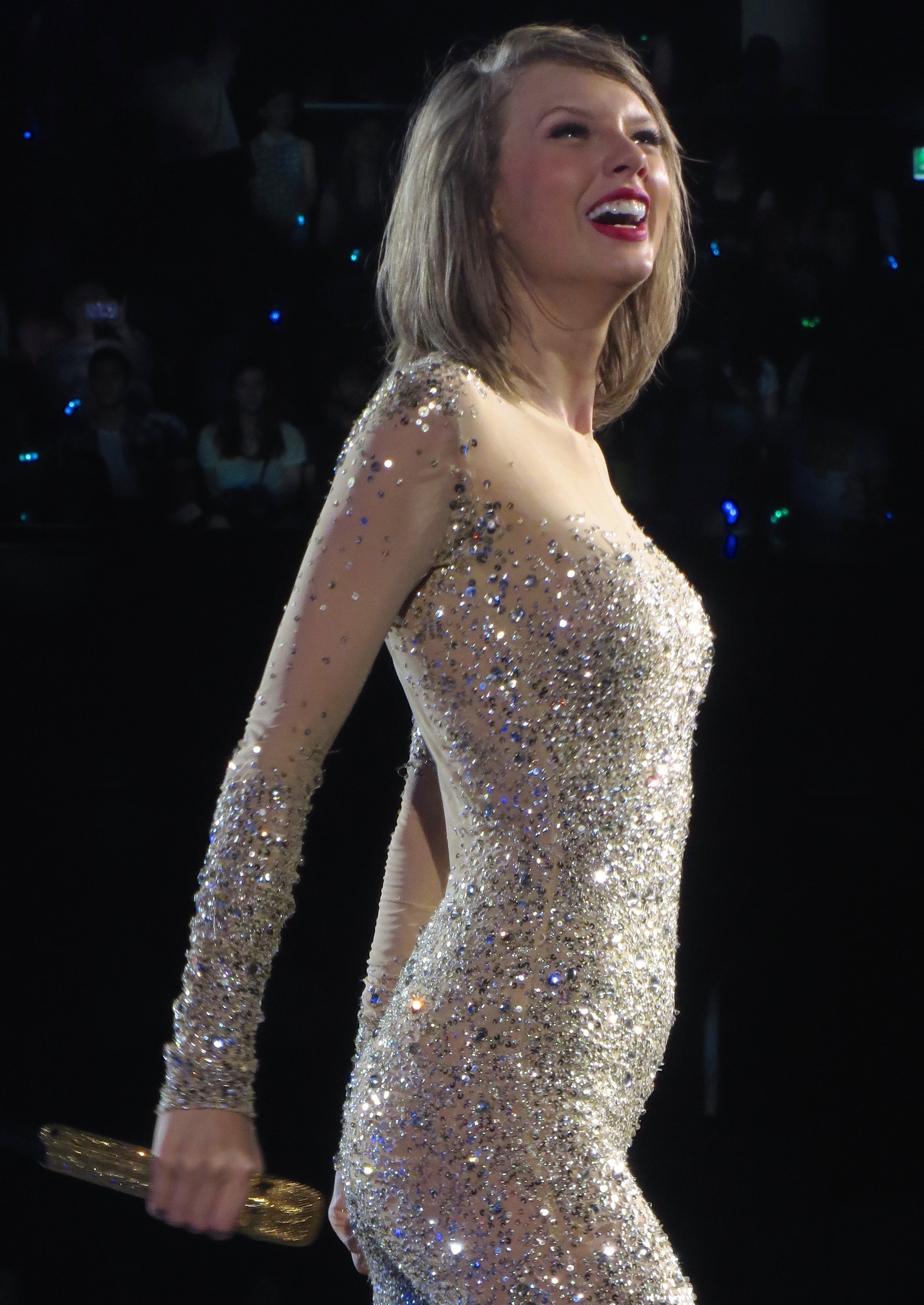 Taylor Swift 17